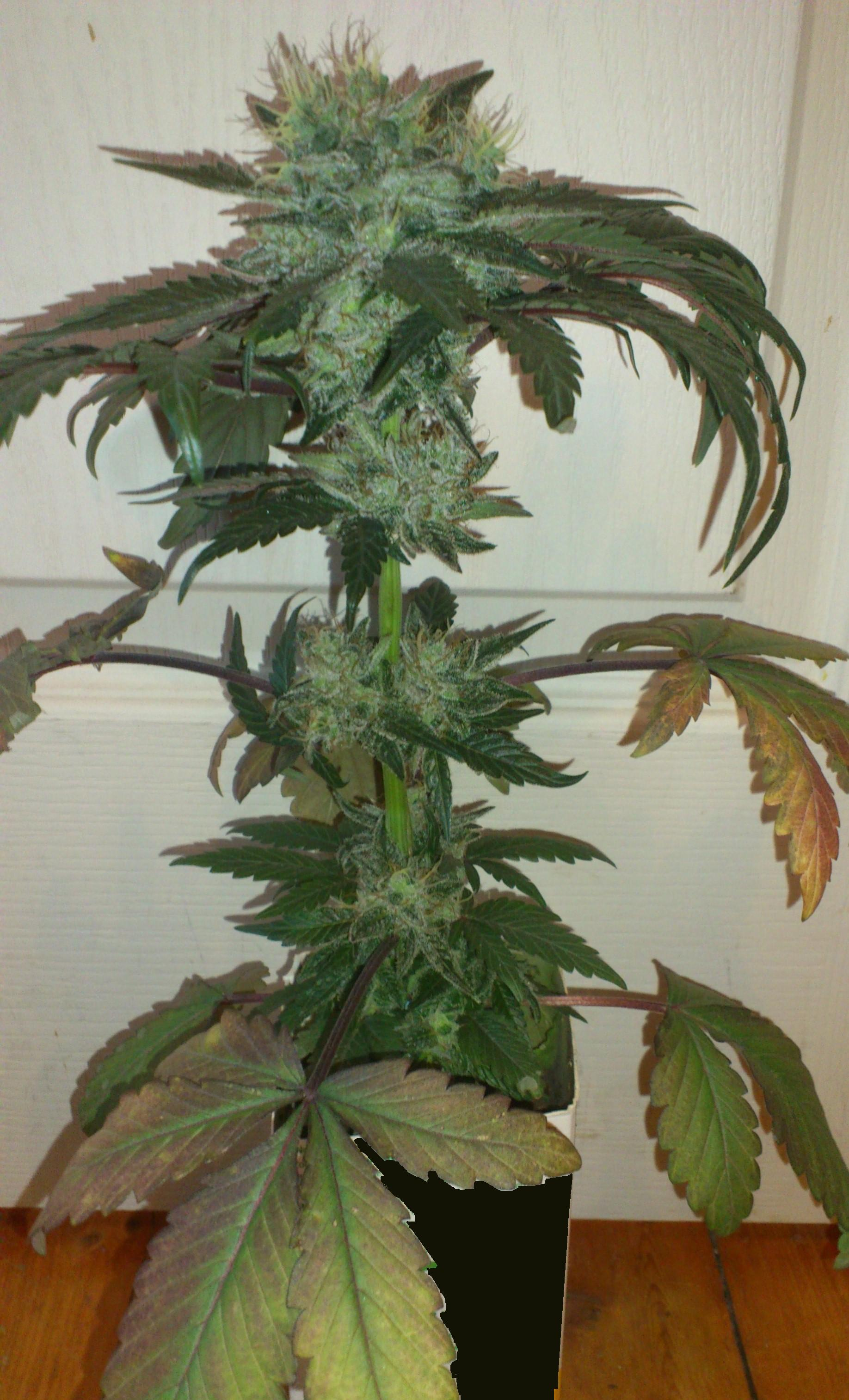 Cannabis Indica cultivé en intérieur